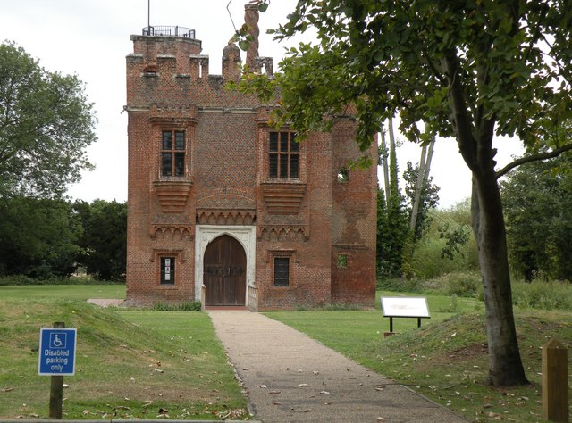 Rye House Gatehouse This gatehouse was built in 1443 and is all that's left of the estate of Rye House that was destroyed by fire. The building was built by a Danish Lord called Sir Andrew Ogard.